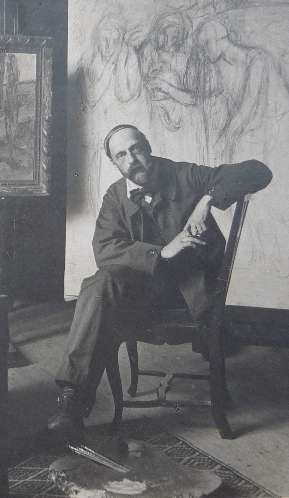 Alfredo Müller posing in his studio at 73, rue Caulaincourt, Paris